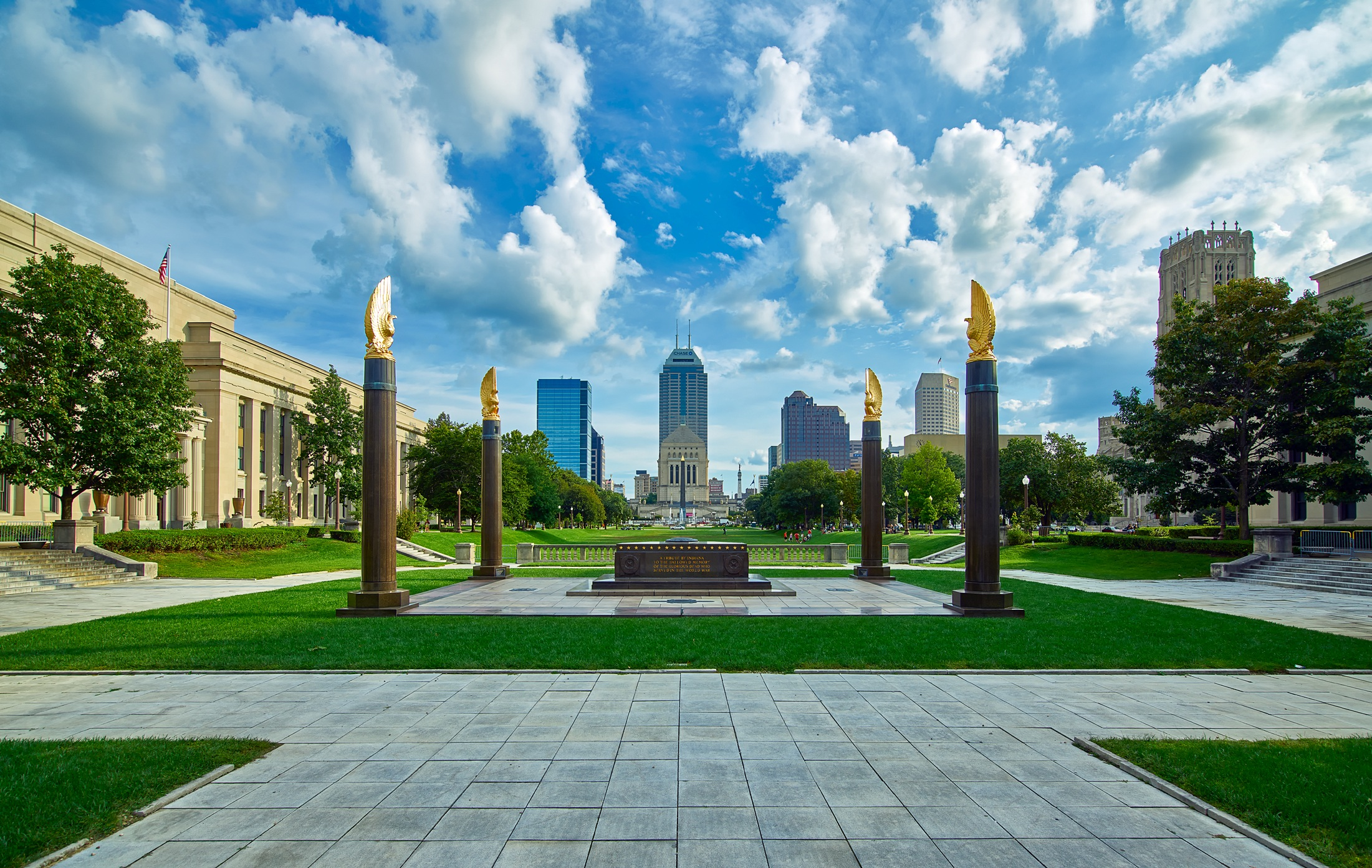 Downtown Indianapolis, looking south, over the American Legion Mall from Cenotaph Square. Visible landmarks include the American Legion Headquarters (left), Indiana World War Memorial Plaza (center), and Scottish Rite Cathedral (right).